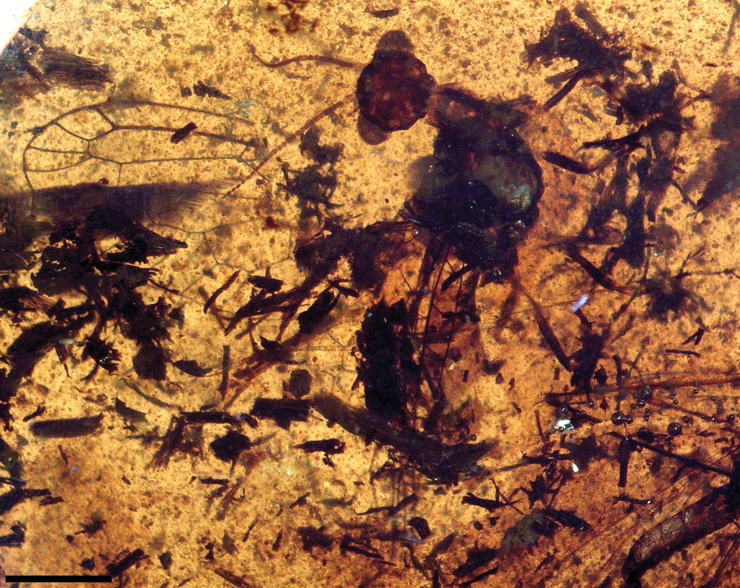 Cantabroraphidia marcanoi Pérez-de la Fuente et al., 2010. Laterodorsal habitus. Sex unknown. Note the abundant presence of timber debris in the amber piece, surrounding the specimen. Scale bar = 1 mm.